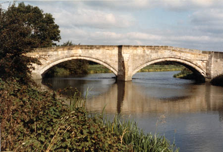 Sutton Bridge, Sutton upon Derwent, East Riding of Yorkshire, England.Photo by Rob Sample 1985